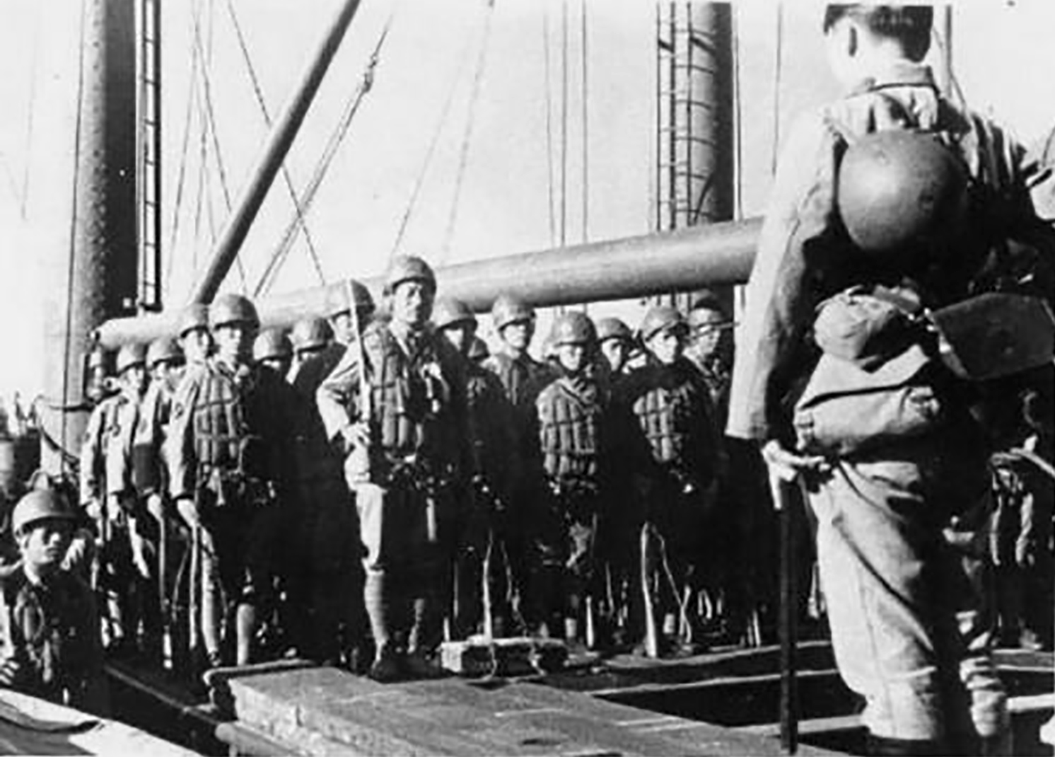 Paratroopers of the Special Naval Landing Forces of the Imperial Japanese Navy are being mustered on a ship before an attack. 1st Yokosuka SNLF Borneo, December 1941?